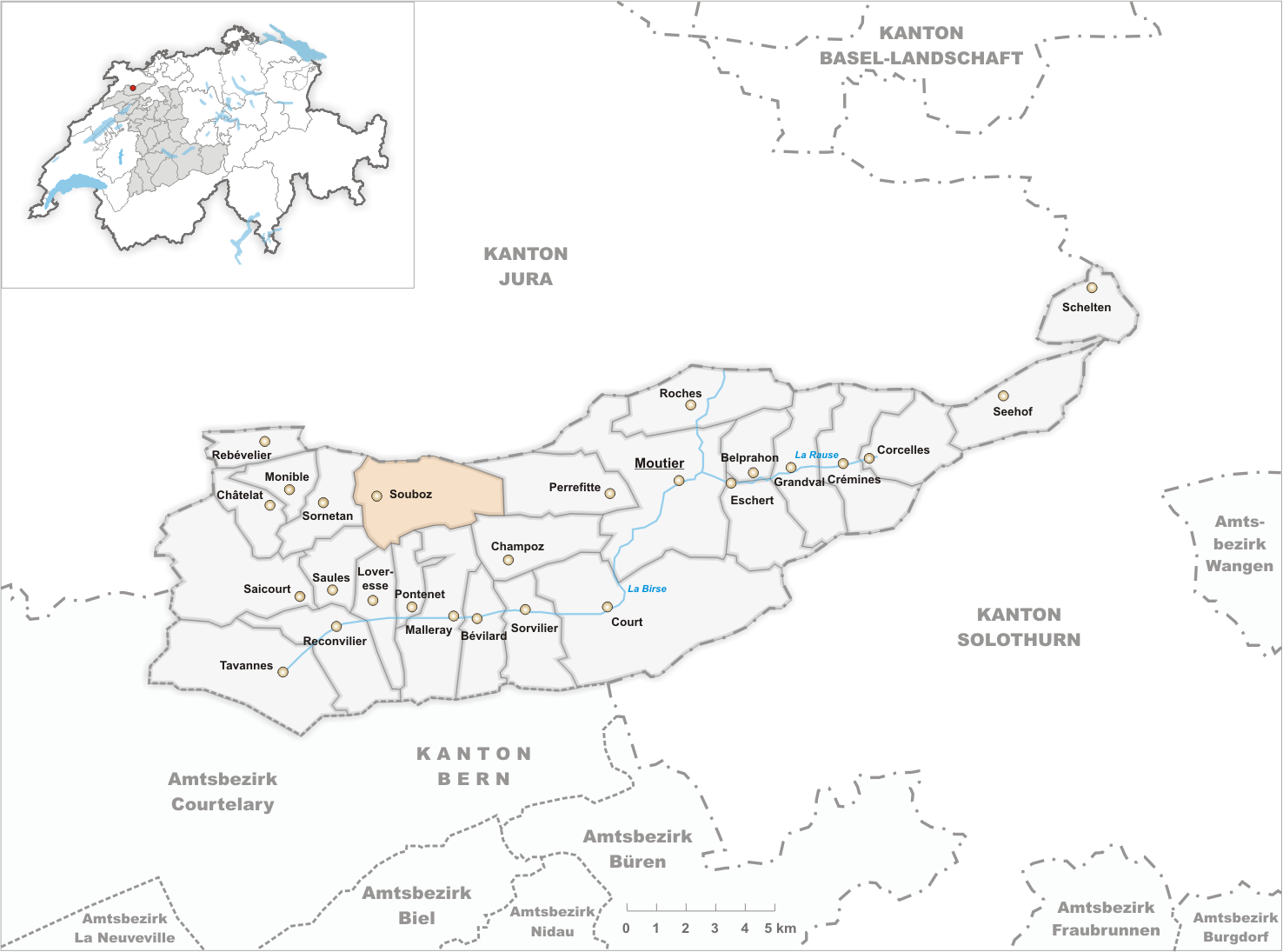 Municipality Souboz